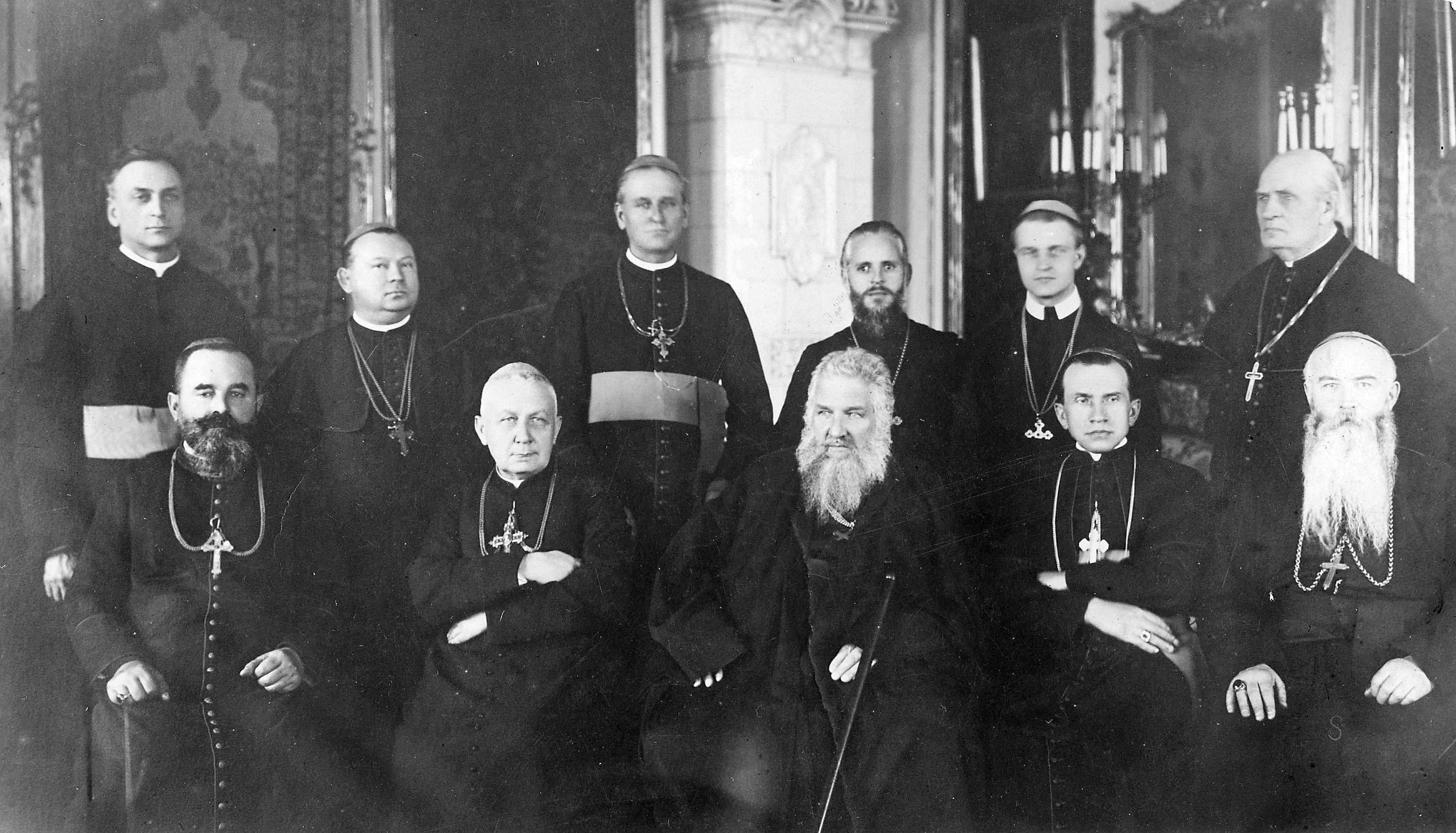 Bishops of Ukrainian Greek Catholic Church in meeting in Lwów 1927. Metropolitan Andrey Sheptytsky sitting in the first row.